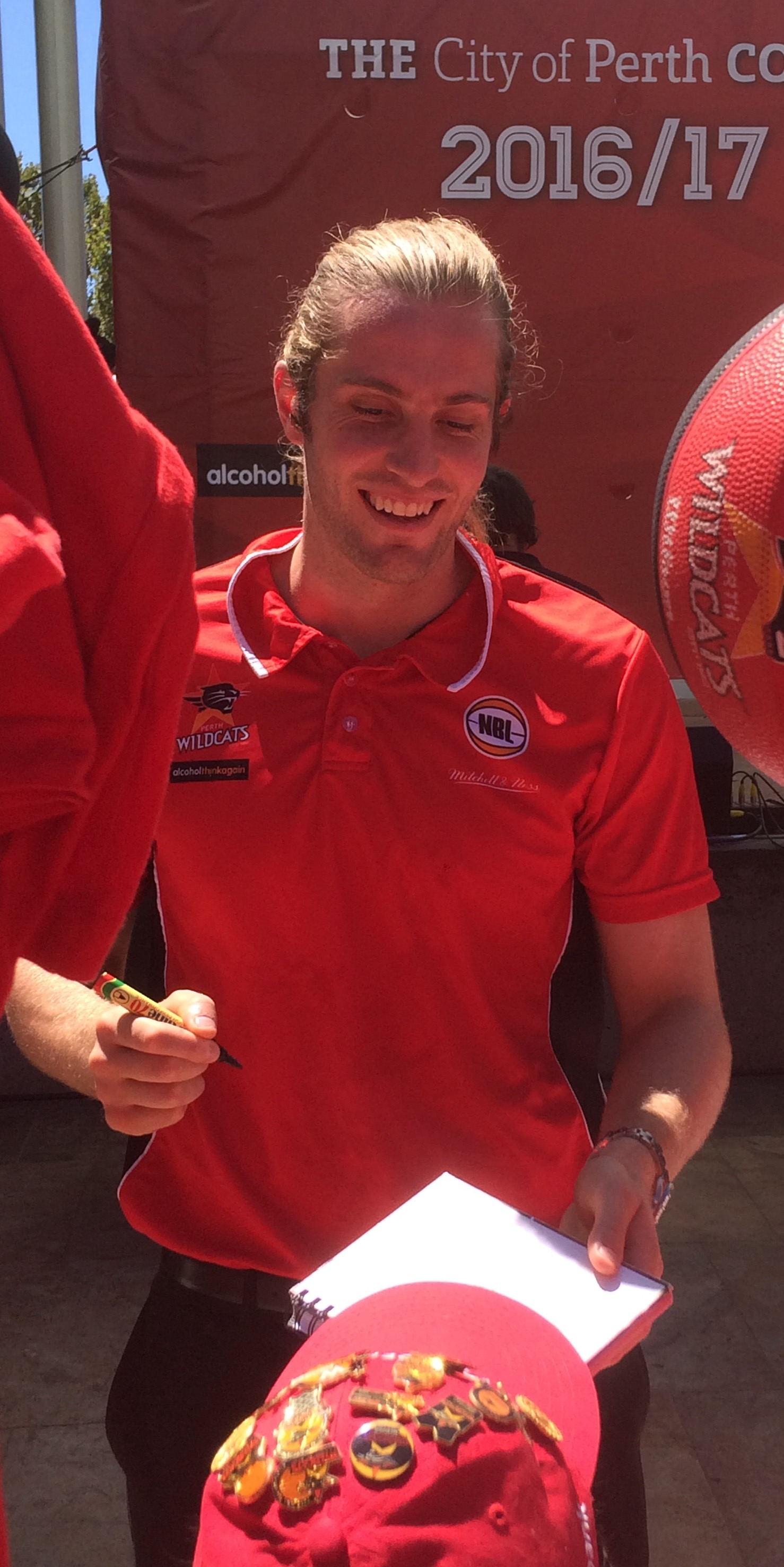 Jesse Wagstaff at the Perth Wildcats' 2017 championship celebration